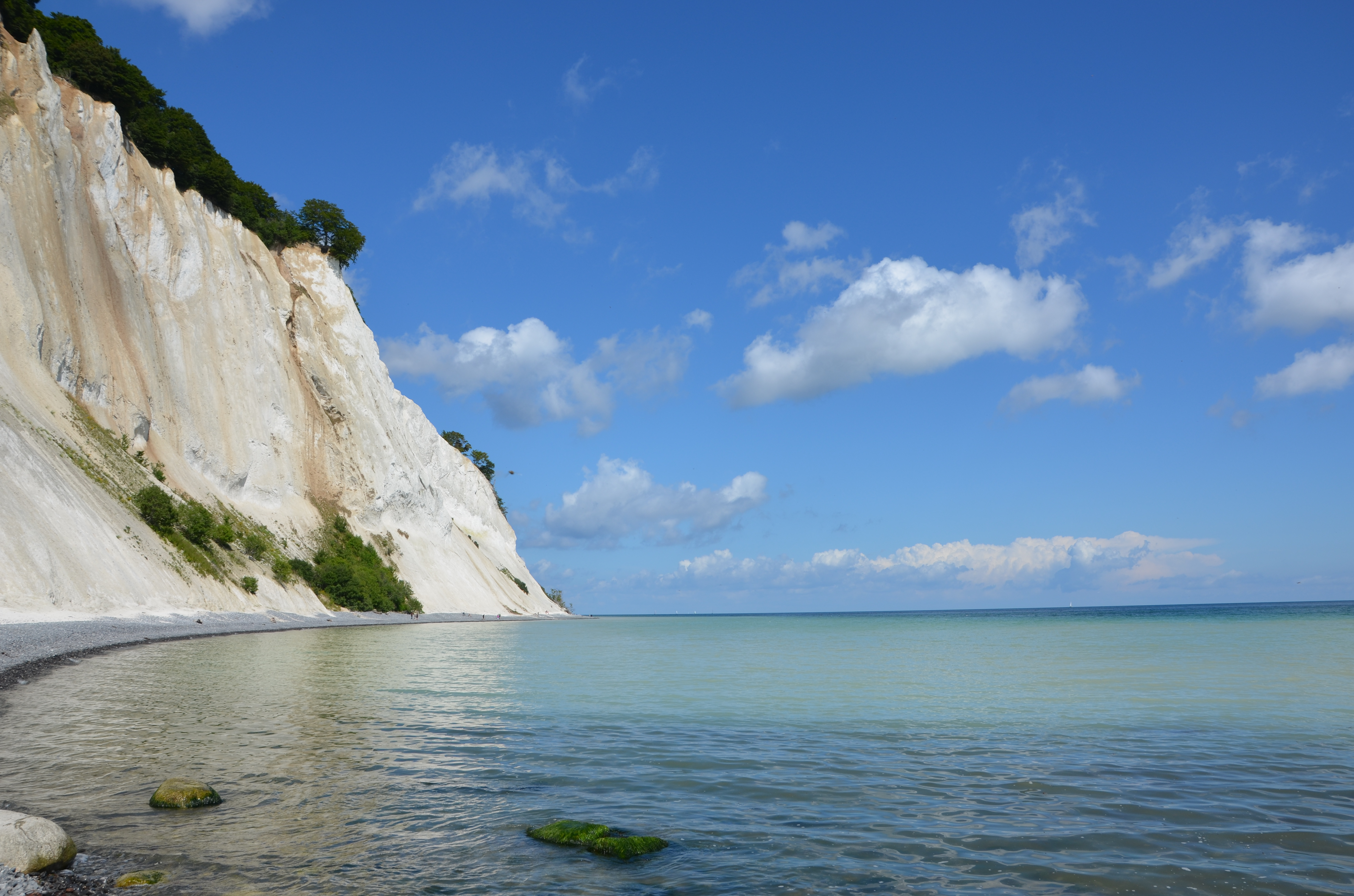 The Cliffs of Møn